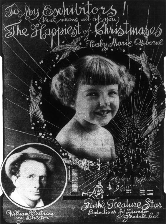 Child actress Baby Marie Osborne and her director William Bertram in a Christmas holiday greeting advertisement, on page 243 of the December 28, 1917 Variety.